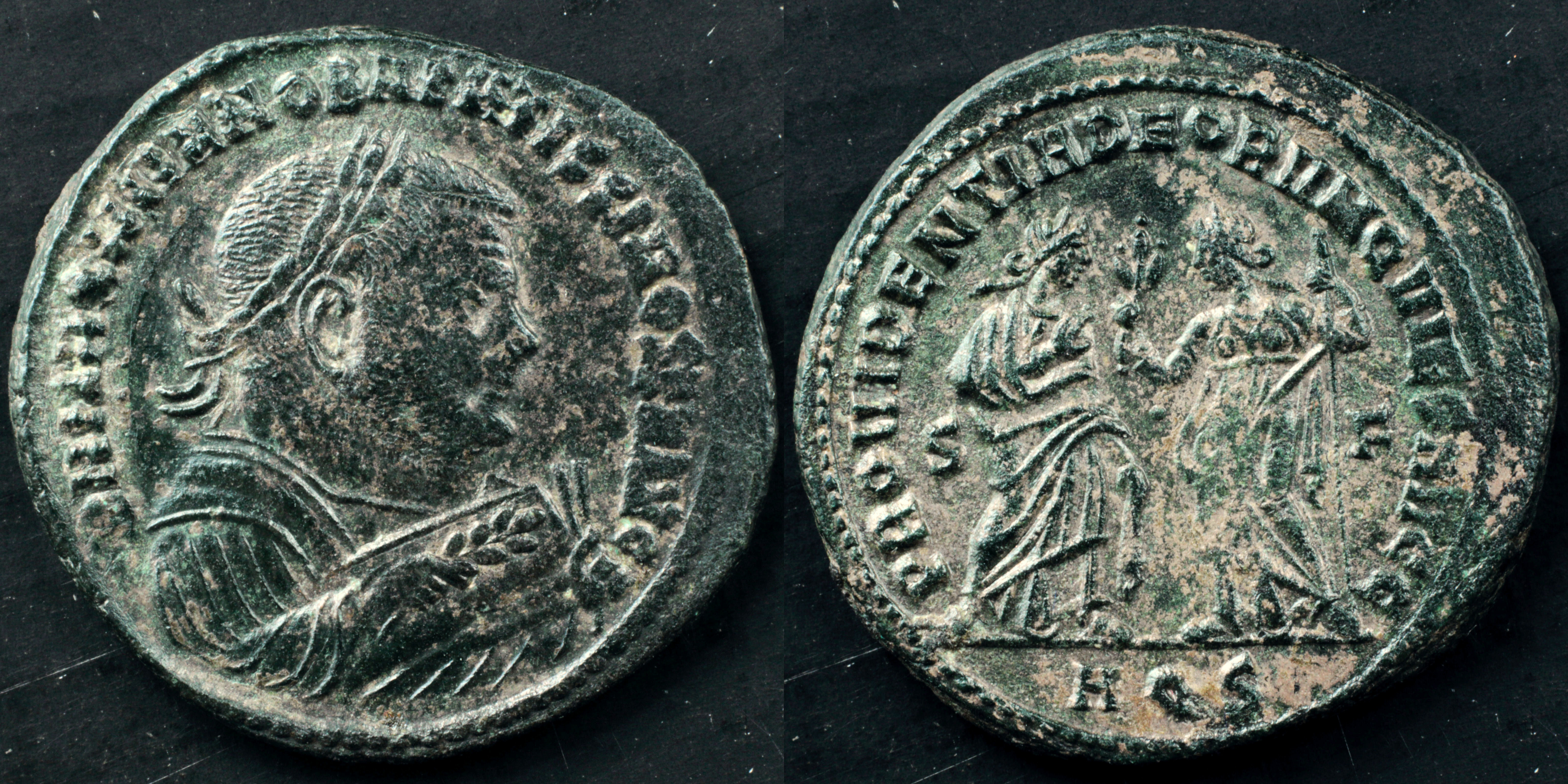 abdication follis struck in Aquileia 305-306 AD obverse: laureate bust dressed in imperial mantle right holding olive-branch and mappa D N MAXIMIANO BAEATISSIMO SEN AVG reverse: Quies standing left extending hand against Providentia who is holding scepter and branch PROVIDENTIA DEORVM QVIES AVGG field: S · F exergue: AQS reference: RIC VI Aquileia 63b weight: 11,27g